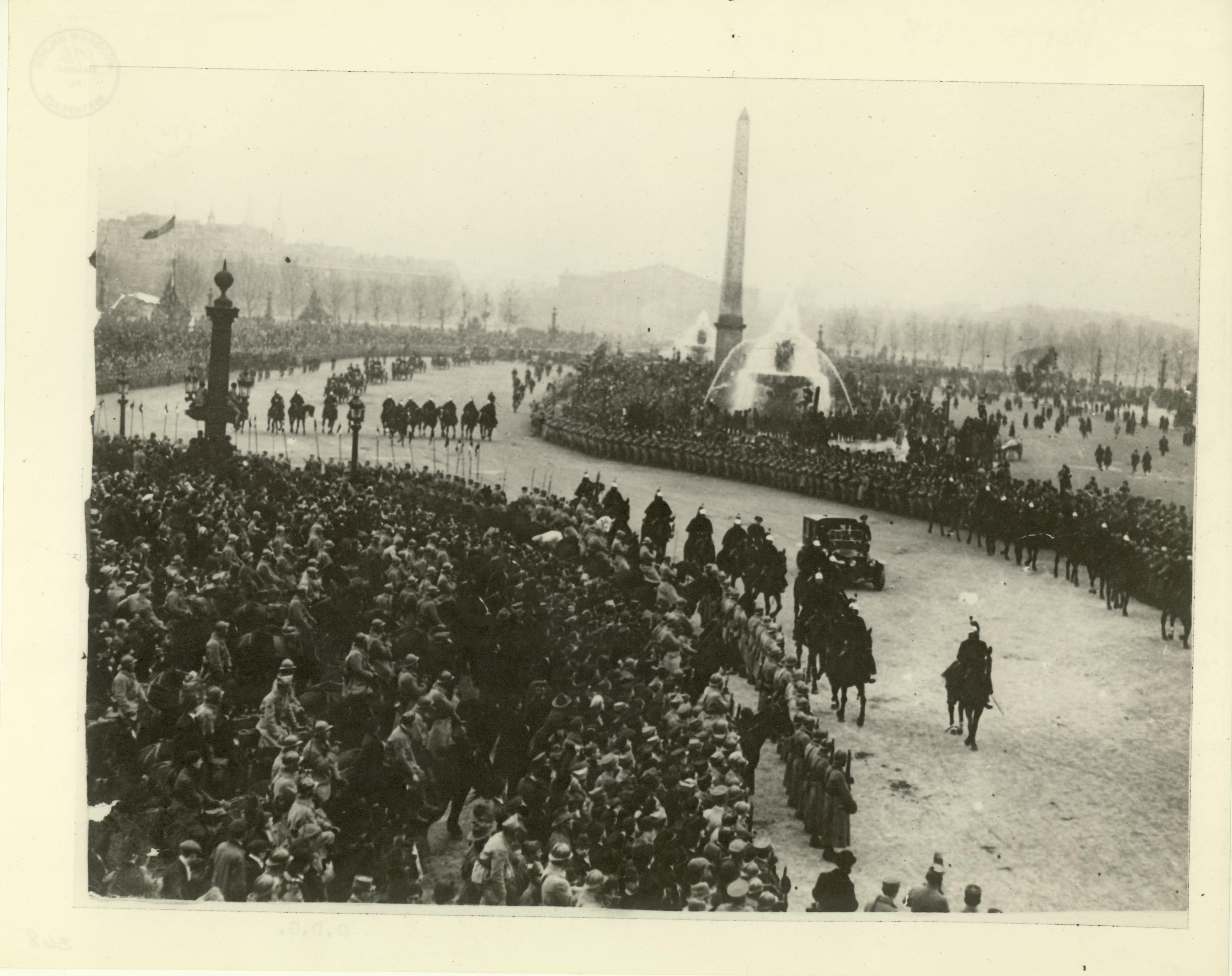 Local Accession Number: 176 Description: President Wilson and his coterie parade through Paris. Photographer: U.S. Signal Corps Source: Research Library, 20th Century Fox Size: 8x10 Medium: Print, Black and White Date: 1918